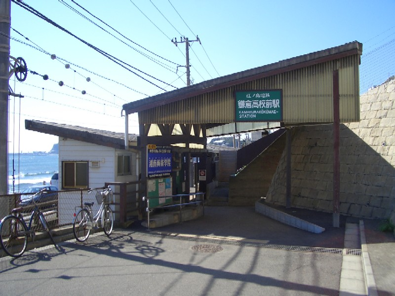 Entrance of Kamakura-Kōkō-Mae Station